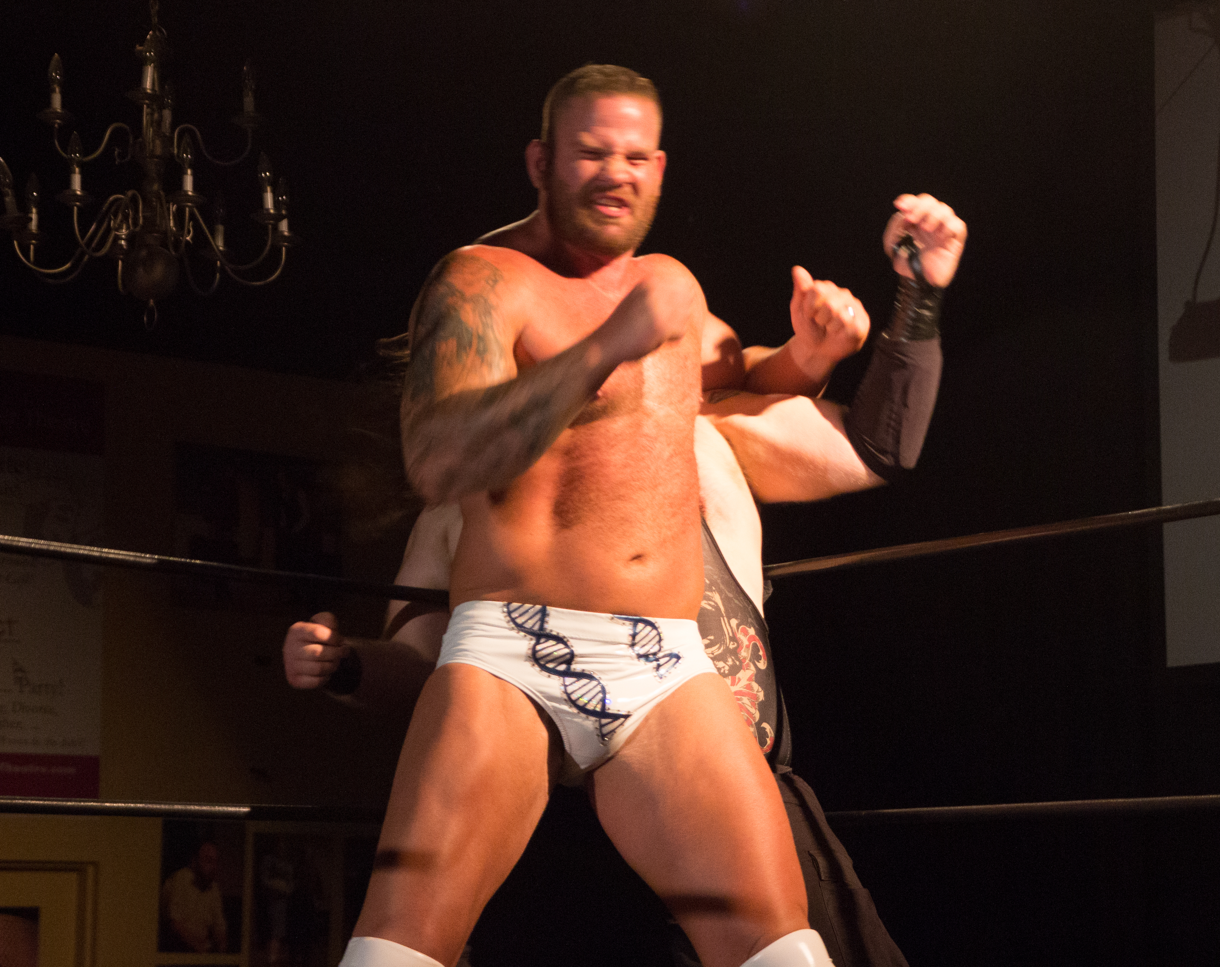 Wrestler Matt Morgan (in white trunks) delivering a back elbow strike